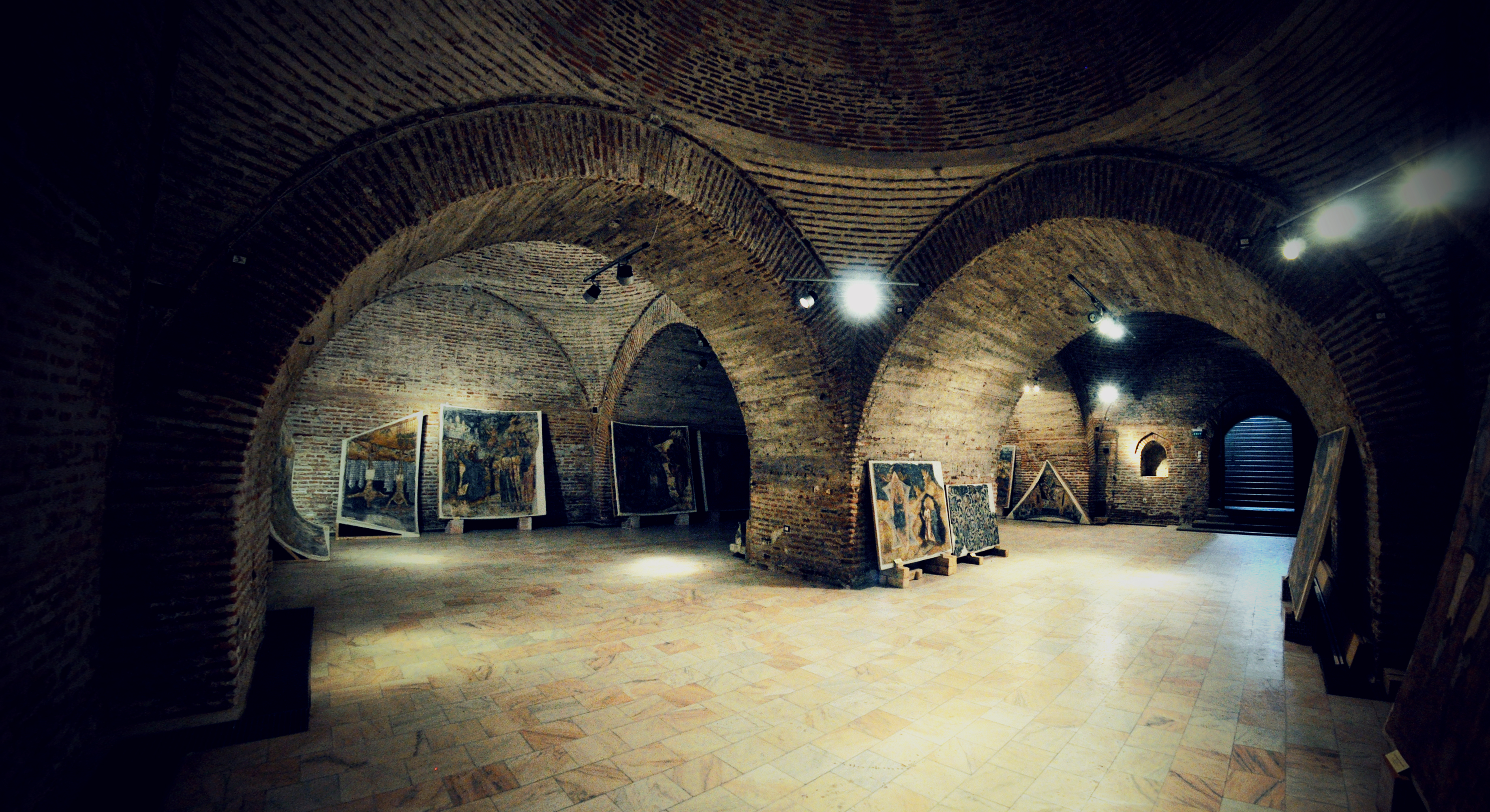 basement of Mogosoaia Palace, finished in 1702 and fresco fragments salvaged from the demolished Vacaresti Monastery palatebrancovenesti.ro/en/ Constantin Brâncoveanu